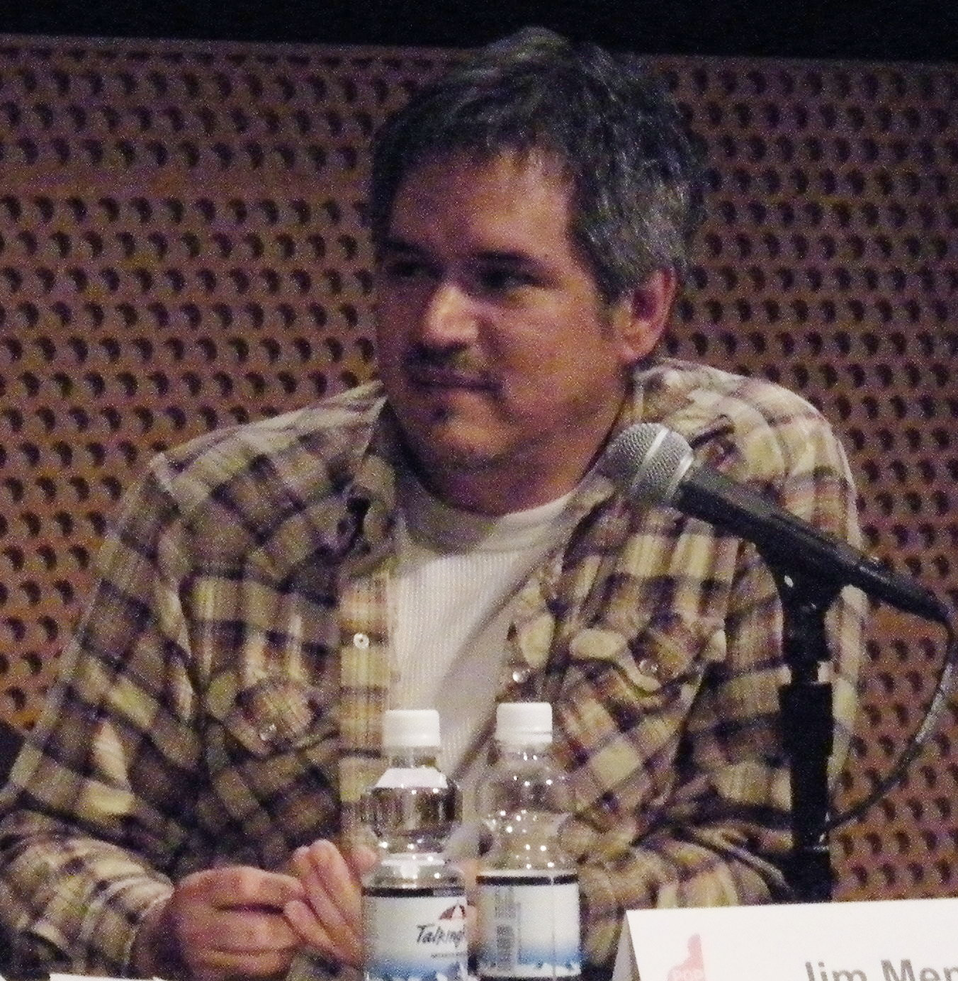 LA-based writer/director Jim Mendiola (Come and Take It Day, Speeder Kills) on the panel "Shake-Ups Across Greater Mexico", 2008 Pop Conference, Experience Music Project, Seattle, Washington.